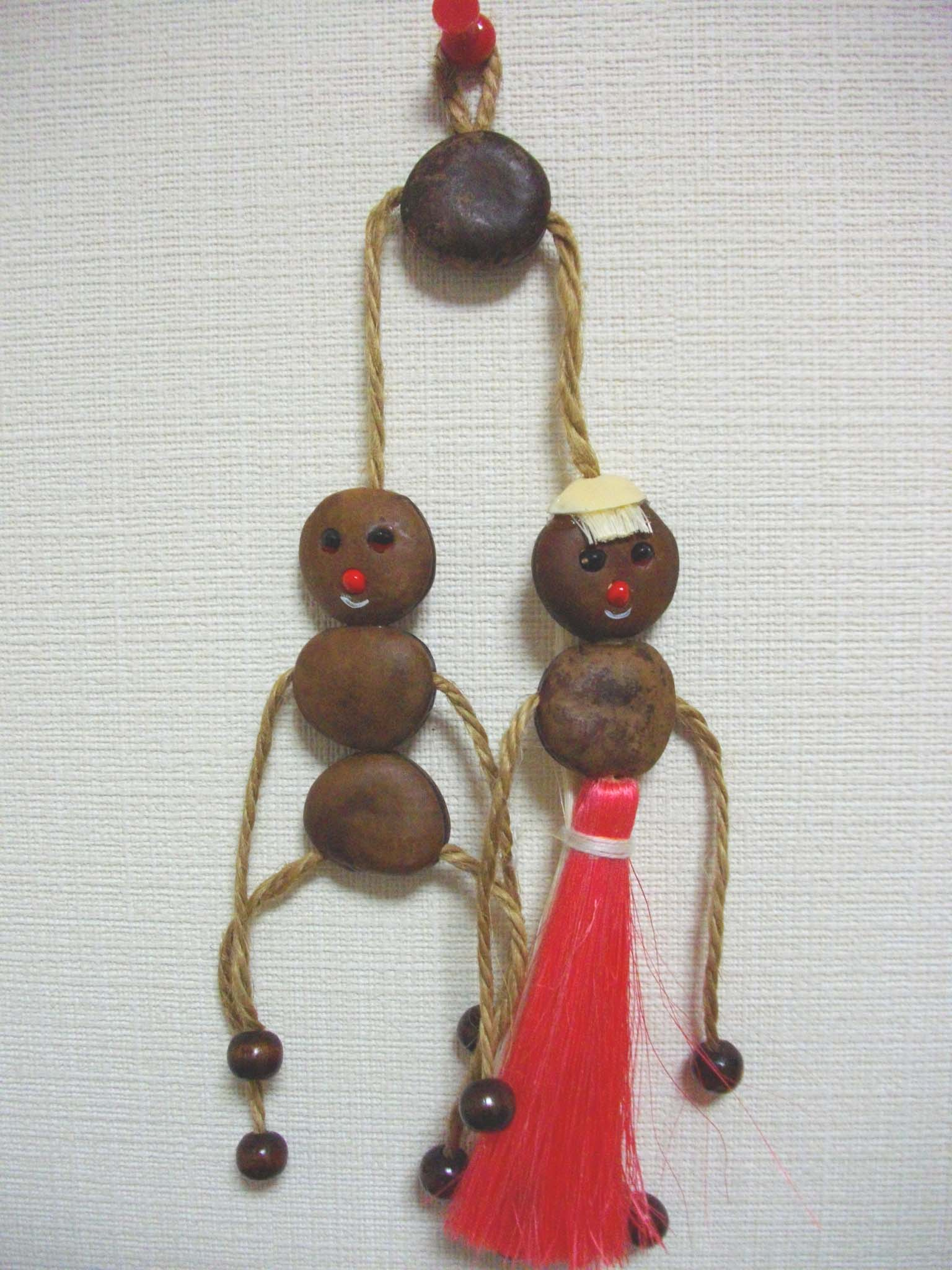 BO JO BO Wishing Doll